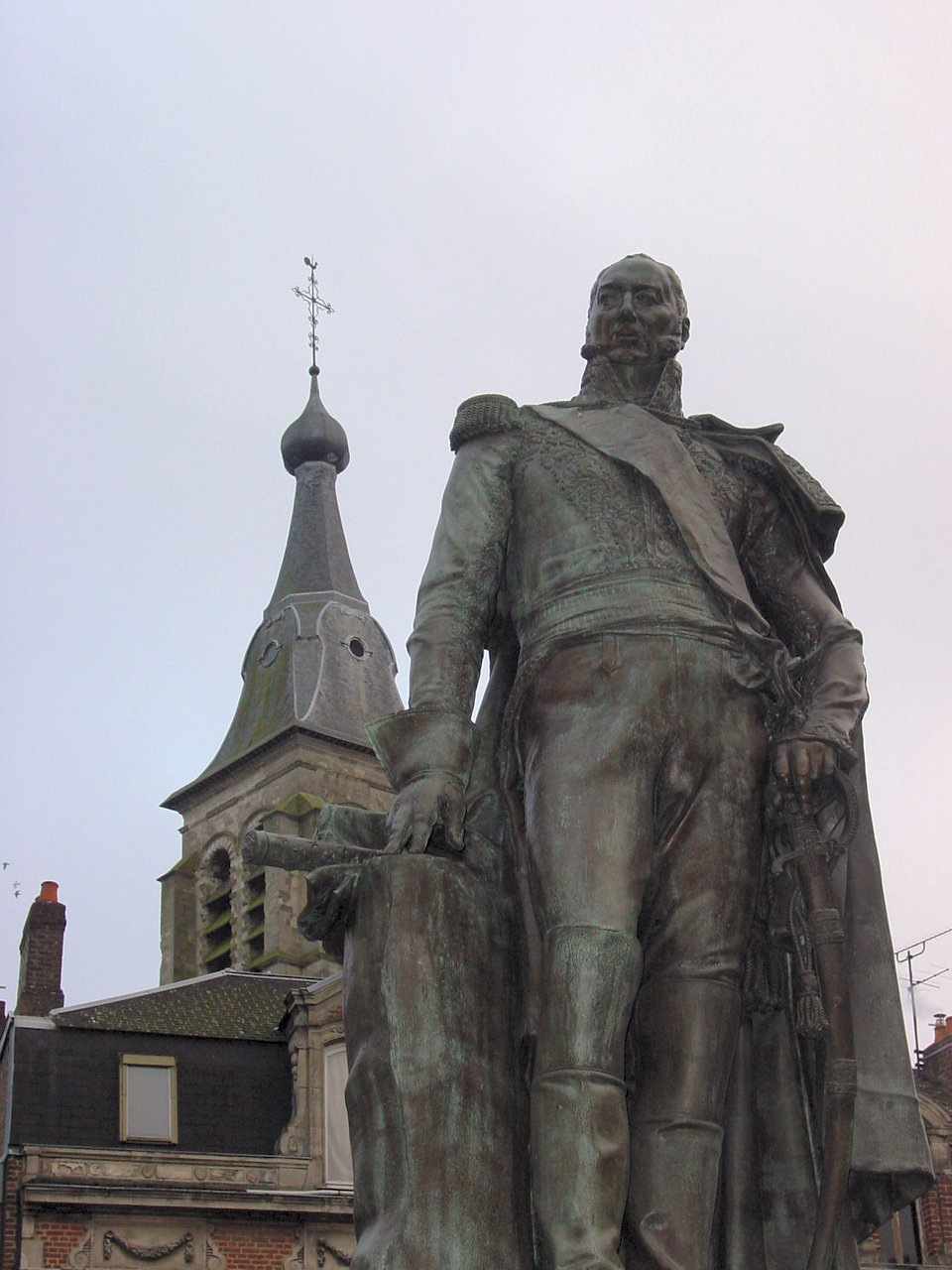 Statue of Édouard Adolphe Casimir Joseph Mortier, 1st Duc de Trévise and Marshal of France, in Le Cateau-Cambrésis, France.